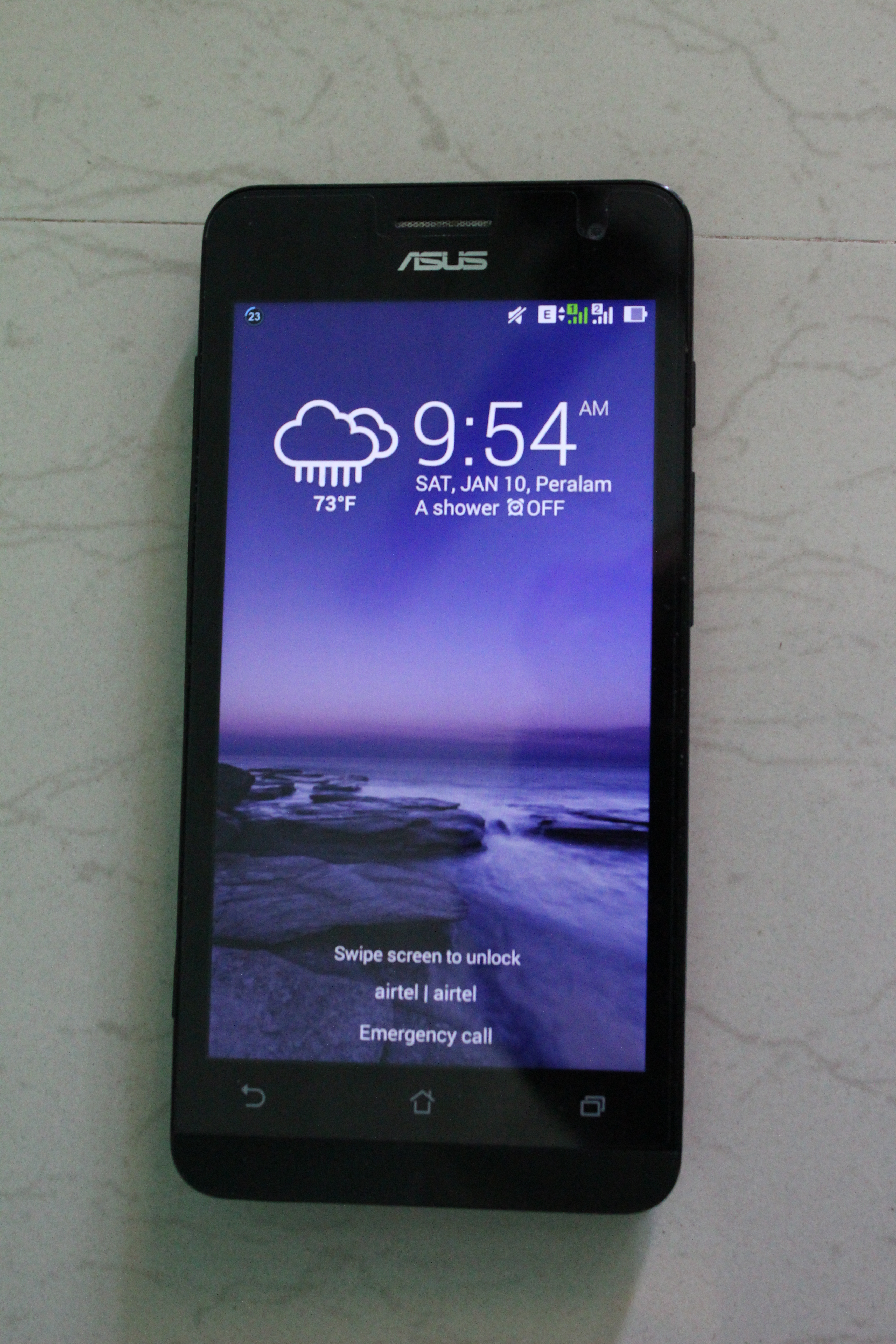 Asus ZenFone 5 face.